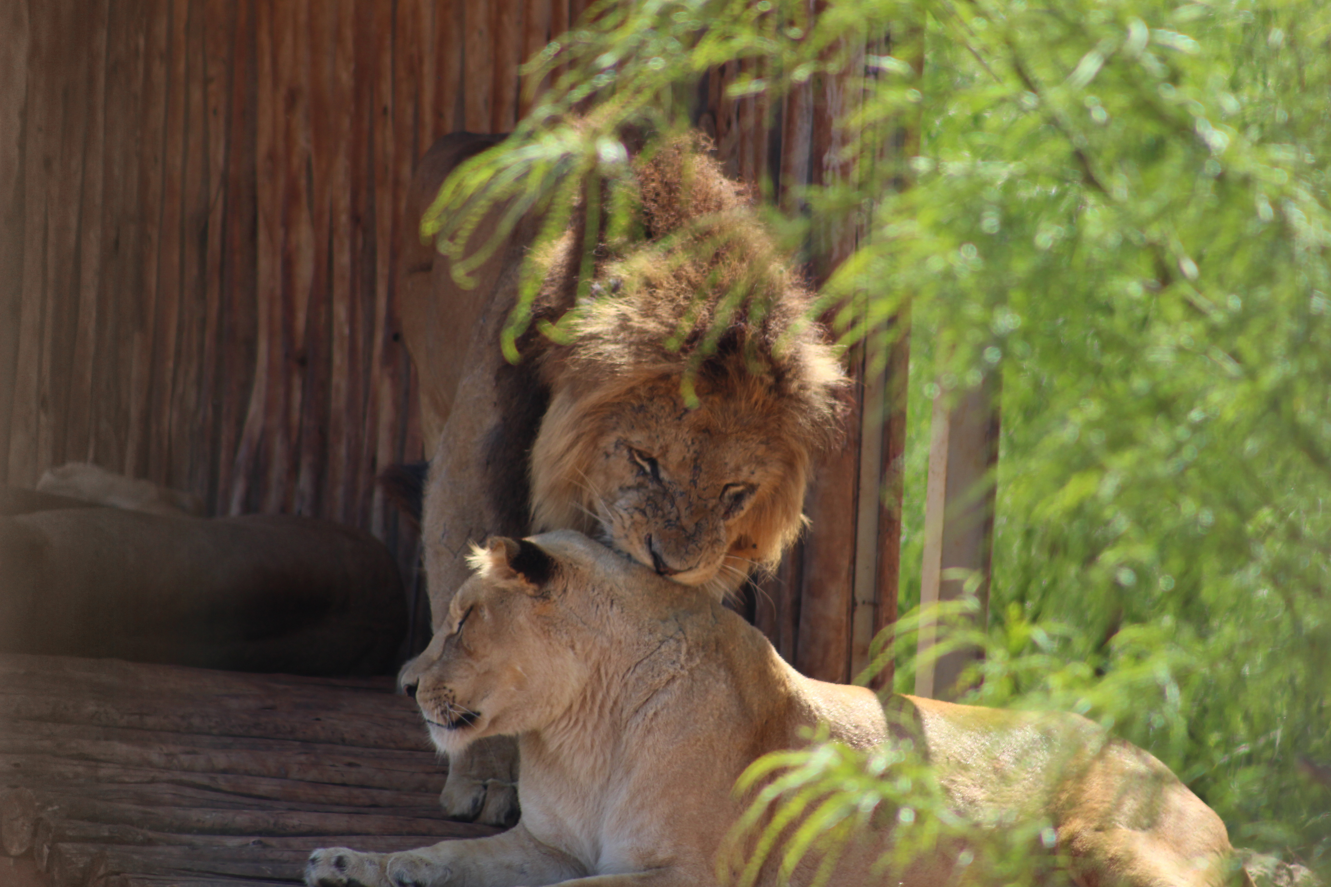 Lions which may be descended from the Barbary lion at Rabat Zoo, Morocco.